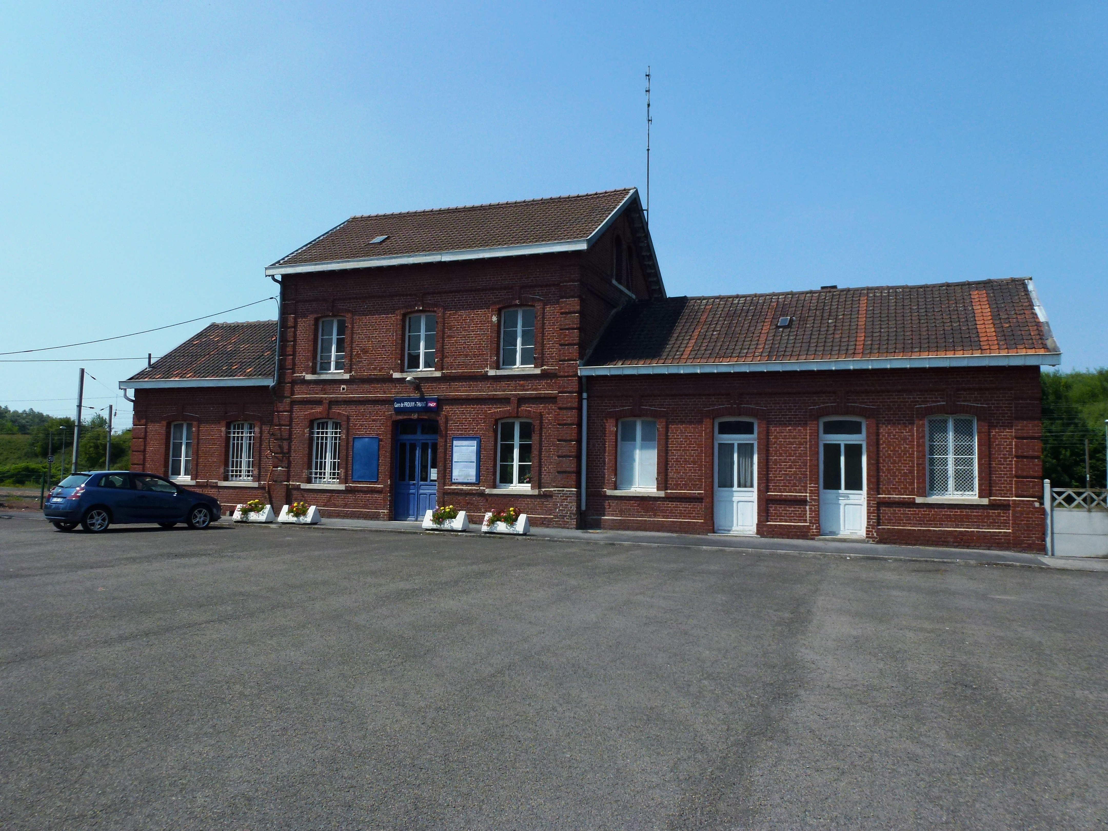 Prouvy (Nord, Fr) gare de Prouvy-Thiant